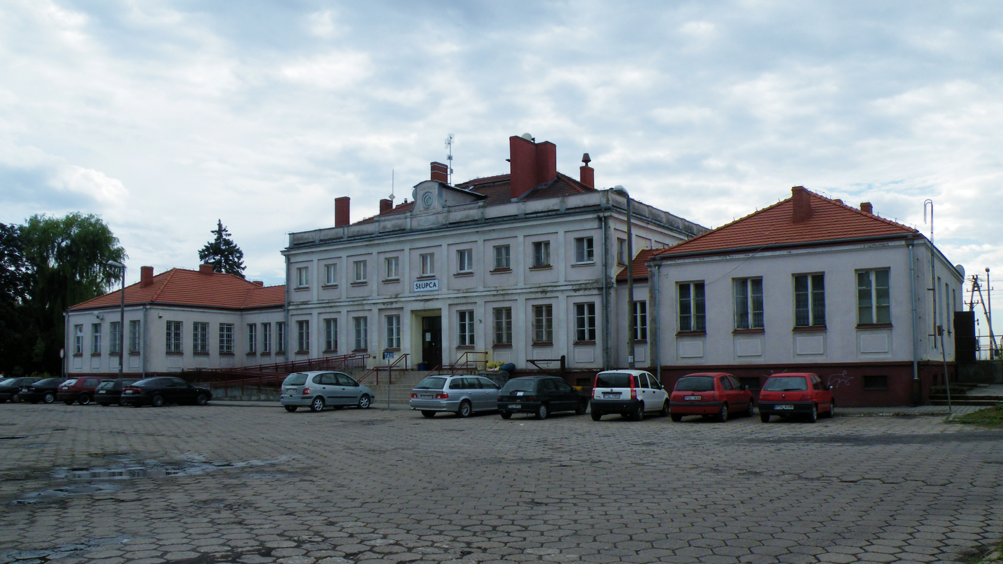 Słupca train stop